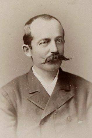 Emil Riebeck's portrait